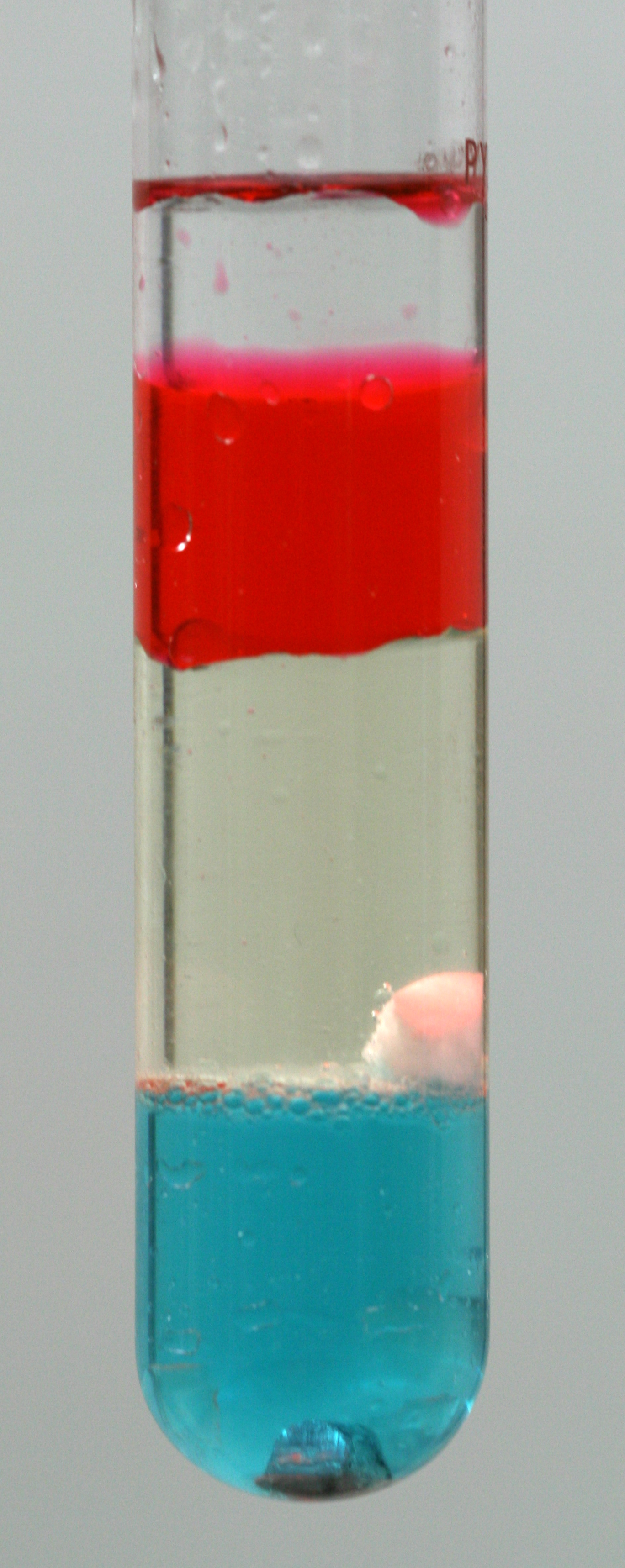 A density column containing some common liquids and solids. From top: baby oil, rubbing alcohol, vegetable oil, wax, water, and aluminum. Food coloring was added to rubbing alcohol and water for visibility.